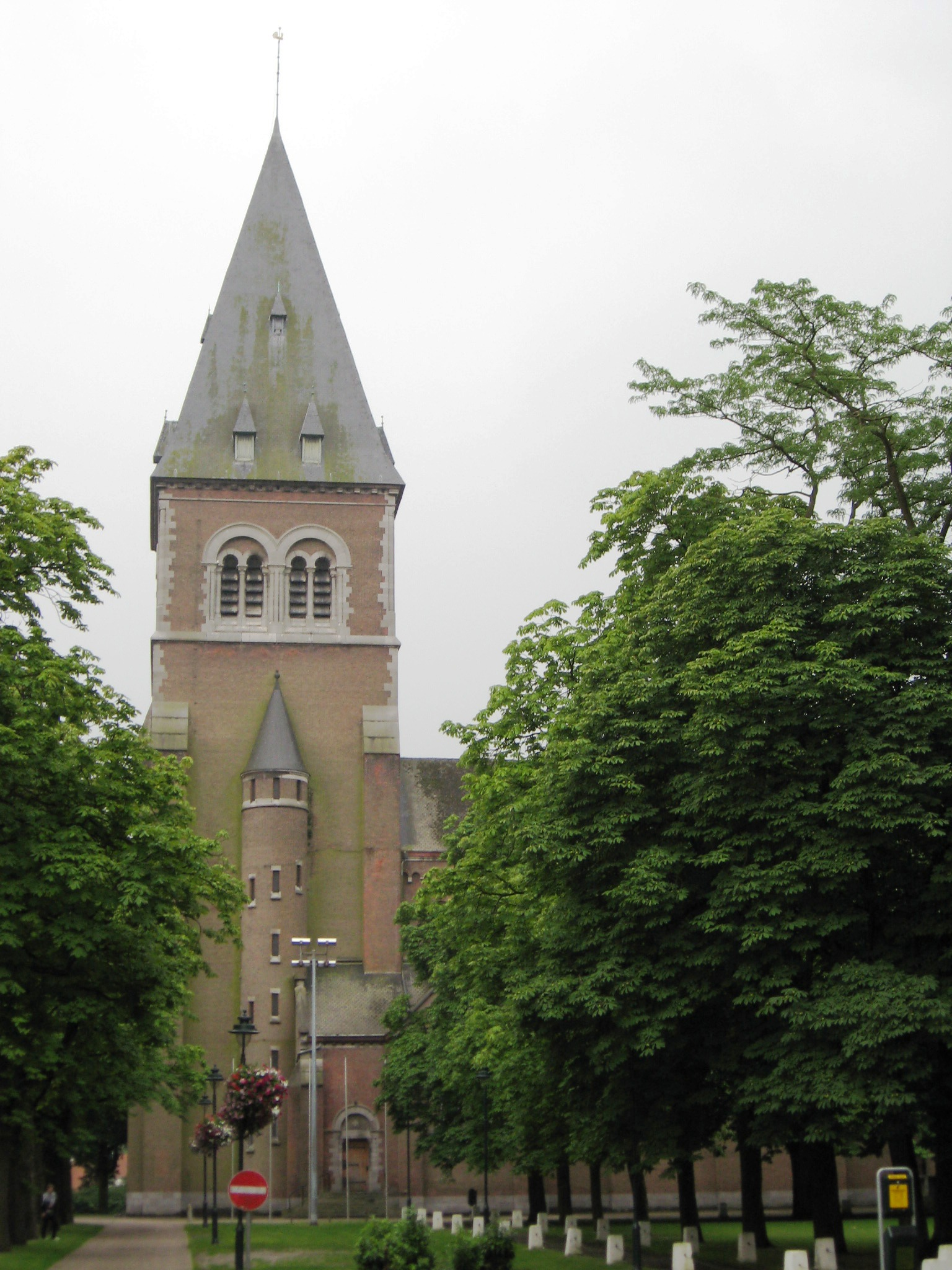 Church of the Assumption of Mary in Leopoldsburg, Limburg, Belgium